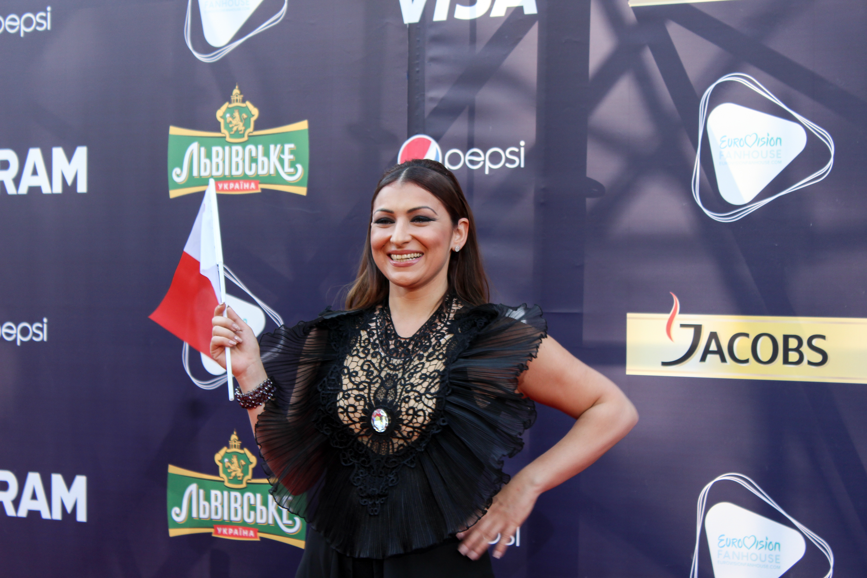 Claudia Faniello at Eurovision Song Contest 2017 red carpet in Kiev (Malta)